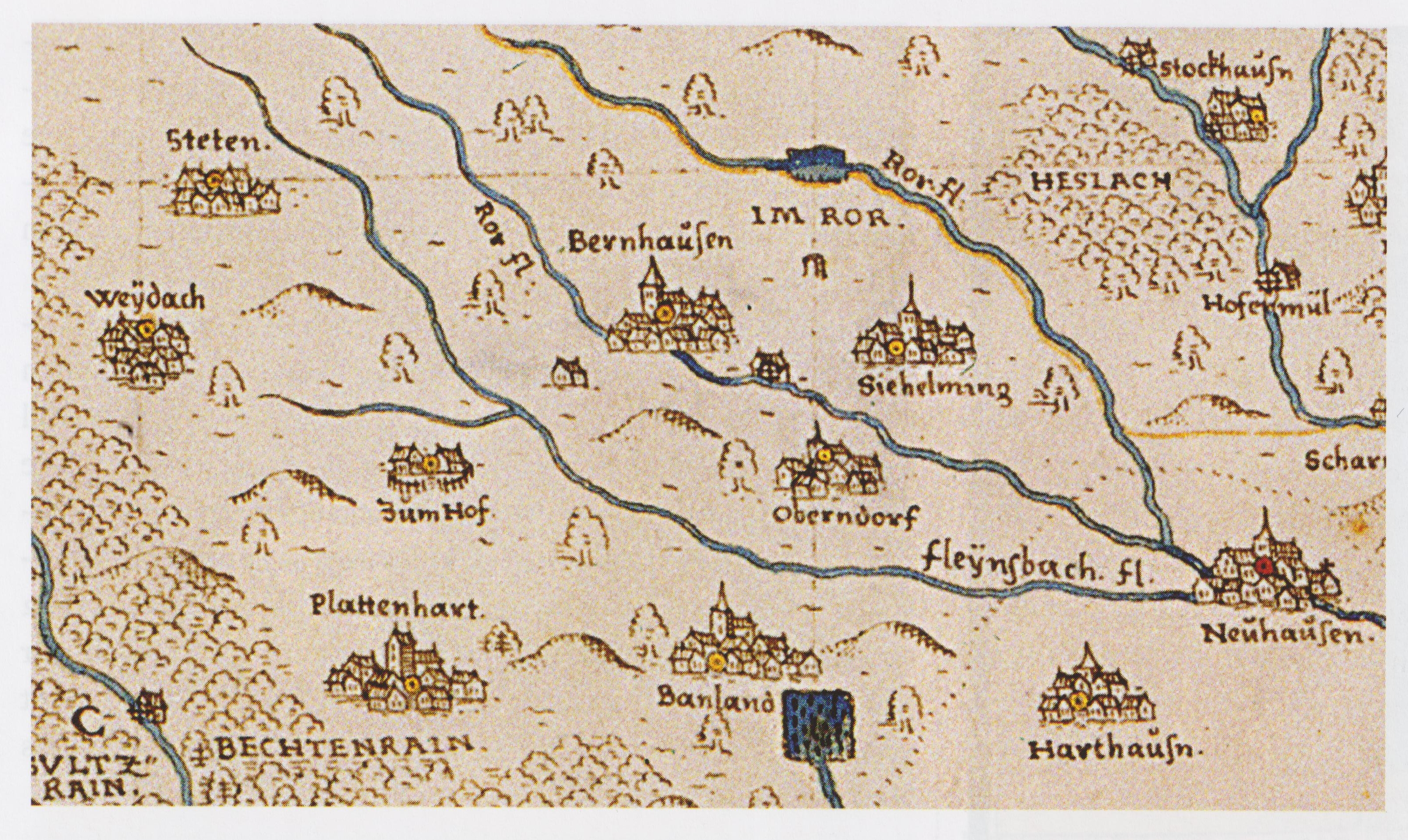 Harthausen (today: part of Filderstadt) and surroundings on a map of Georg Gadner, approx. year 1600